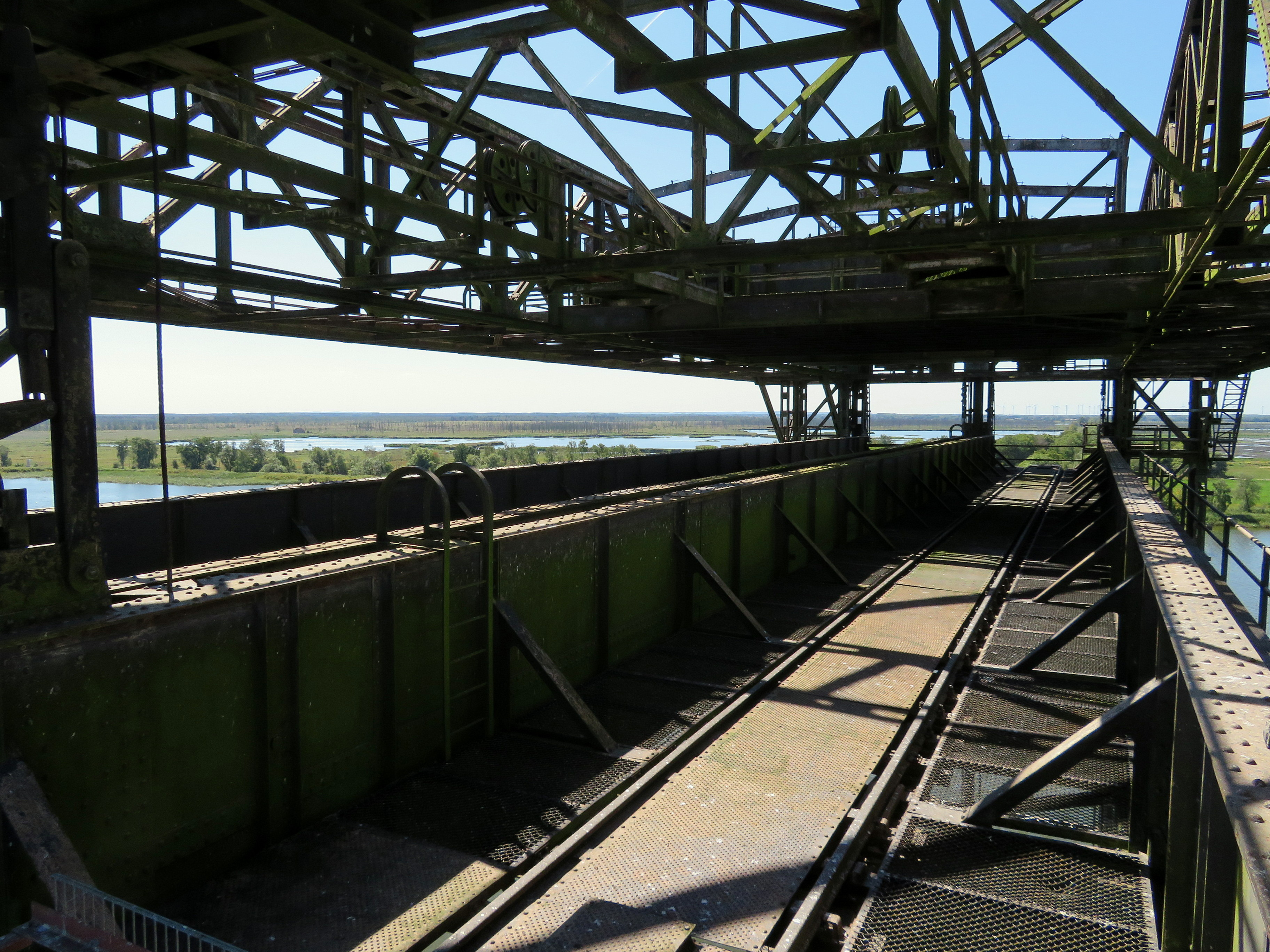 Western lifting part of the Karnin lift bridge in the locked up position with view to the south.